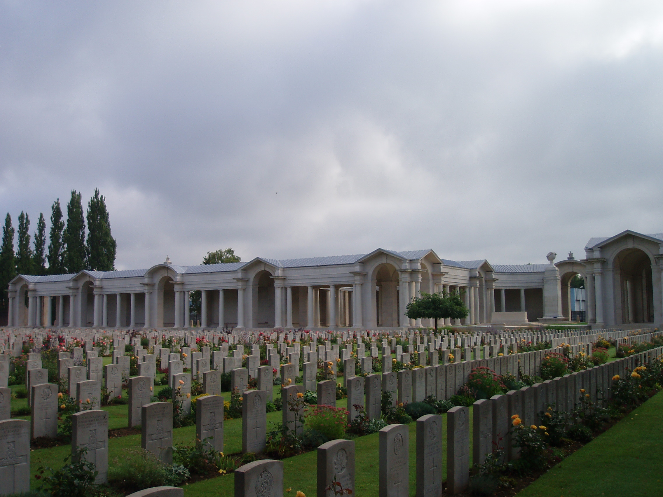 Part of a sequence of photographs taken at the Arras Memorial and Fauberg-D'Amiens Cemetery, in Arras, France. This is a wide shot of the cemetery and nearly all of the Arras Memorial, with the Arras Royal Flying Corps Memorial at right.